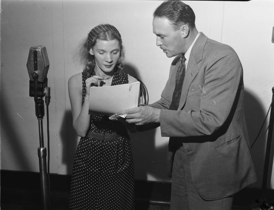 Muriel Guilbault listening to the advice of the director Jacques Desbaillets when recording an episode of the soap opera "Les secrets du docteur Morhanges" by Henry Deyglun on CBC station (Radio-Canada) in Montreal.